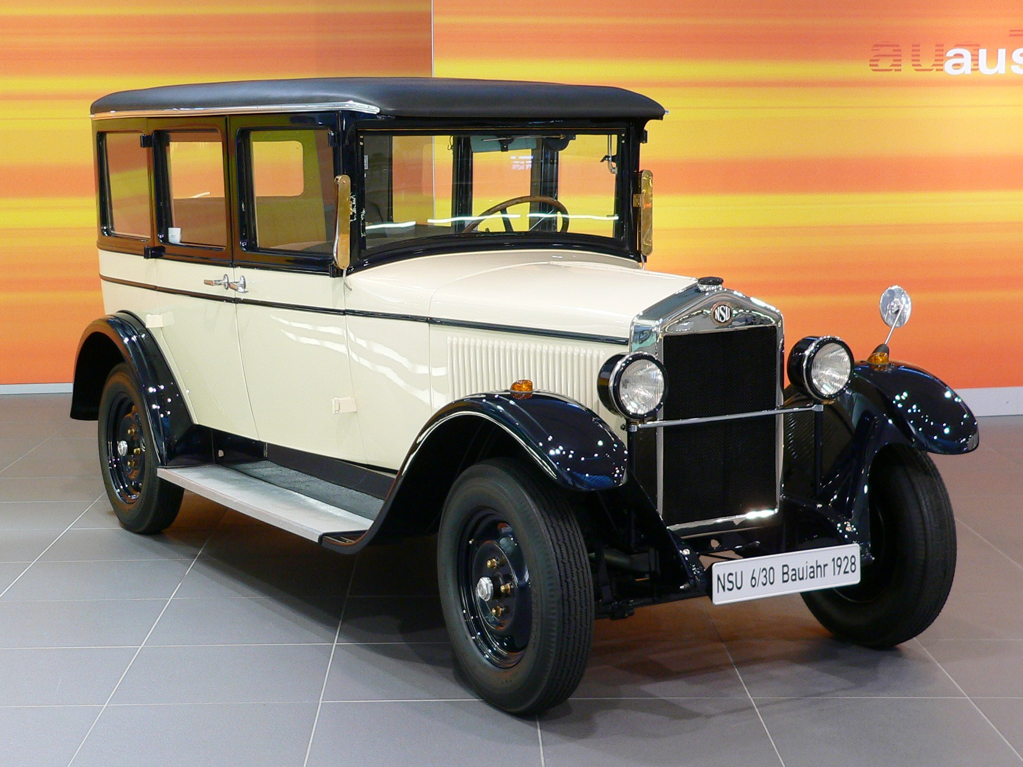 "NSU 6/30" (1928) at the Exhibition of historical vehicles in the Audi-Forum of the Audi AG in the City Neckarsulm/Germany